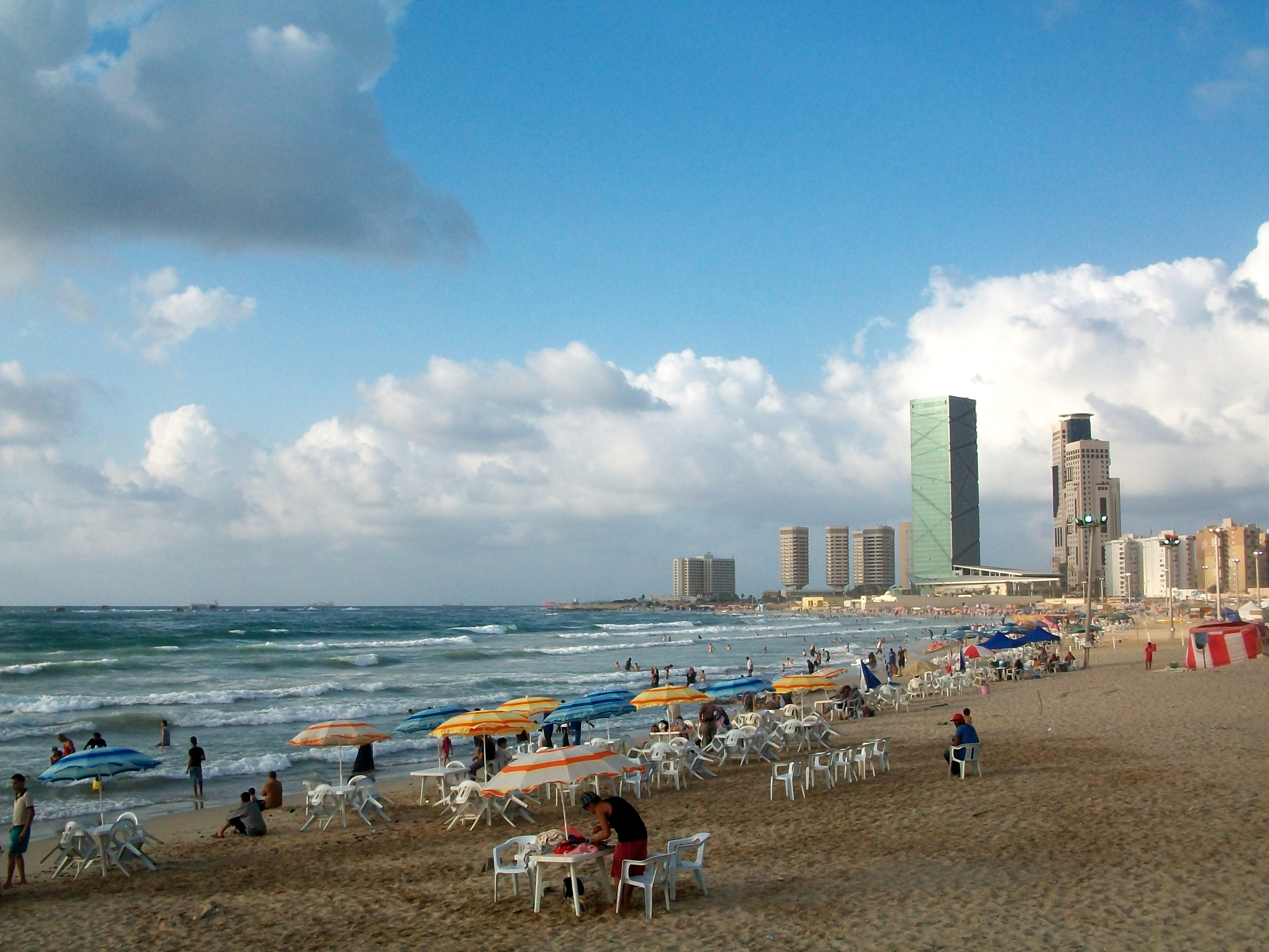 Tripoli's Municipal Beach during the Summer months in the Libyan capital.